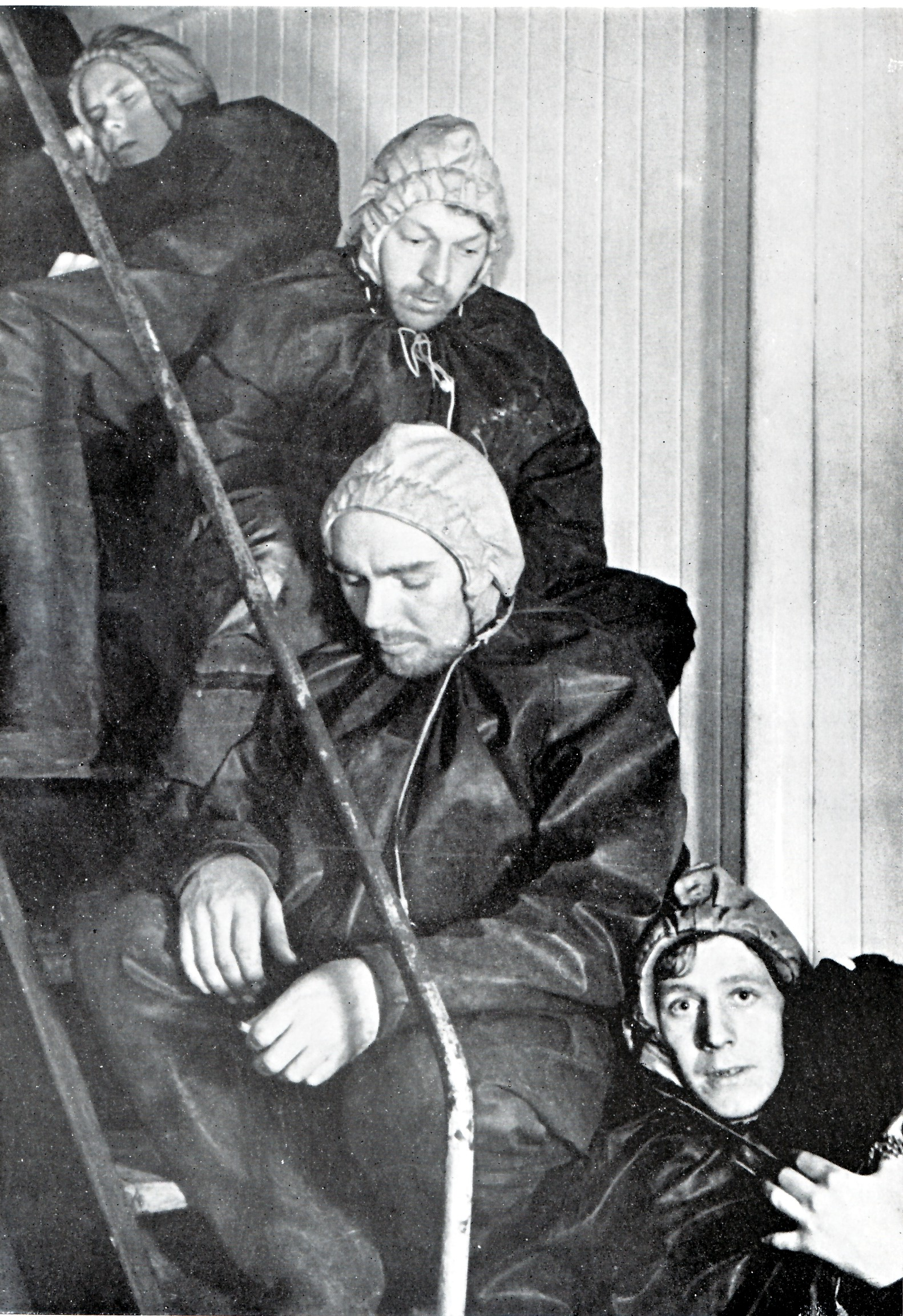 Crew of Norwegian merchant ship Montevideo during attack on a convoy.